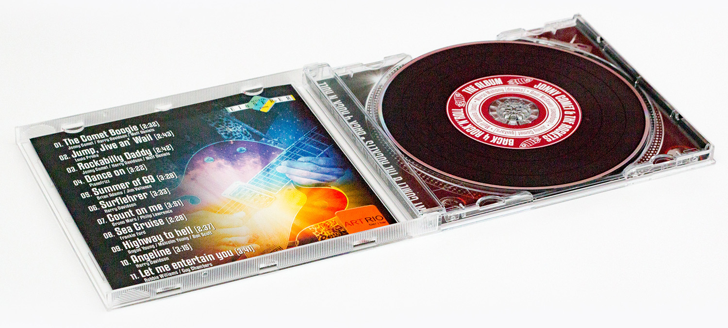 Graphics & Photography by Meffdaniels (